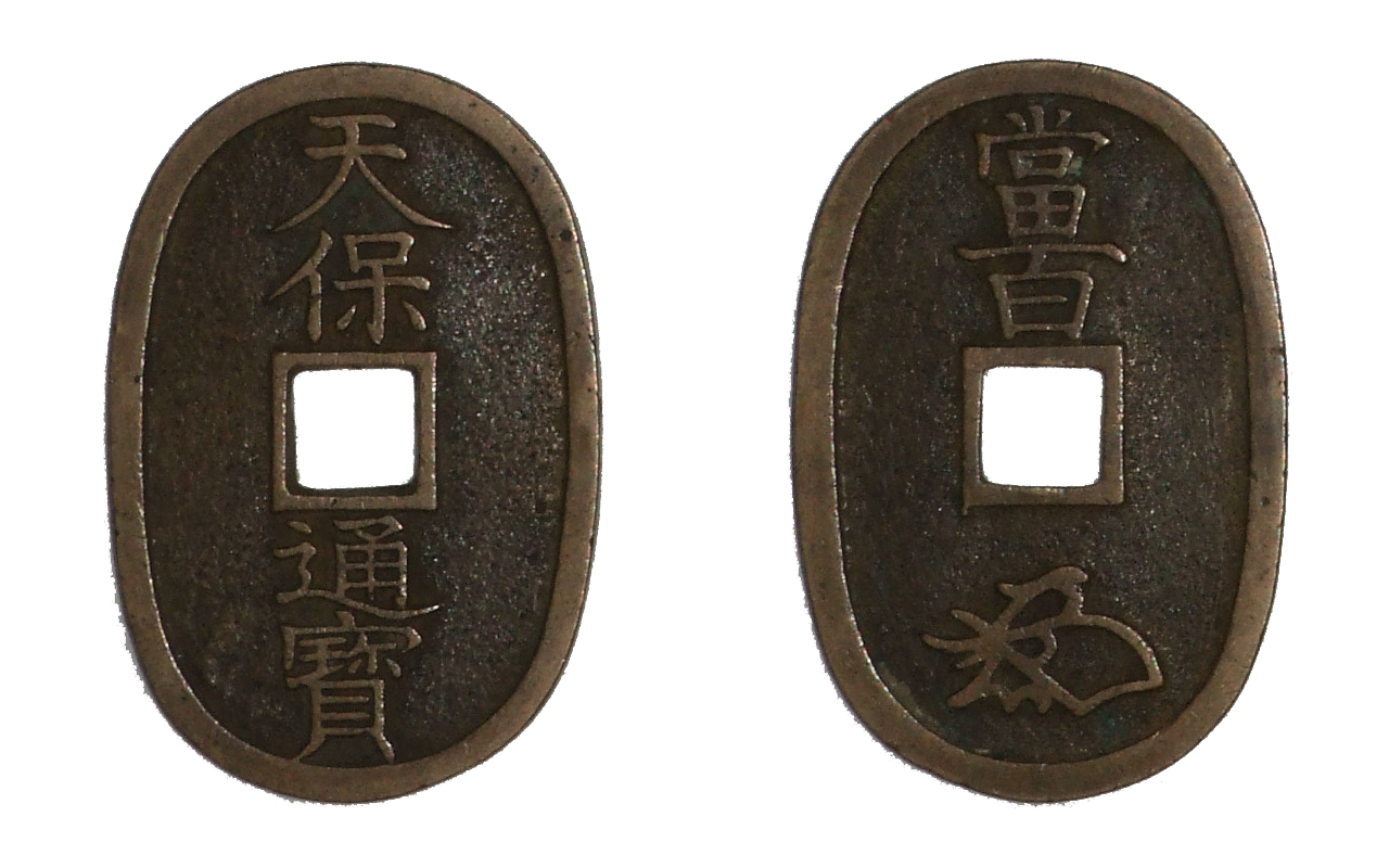 Tenpo-tsuho-saikaku